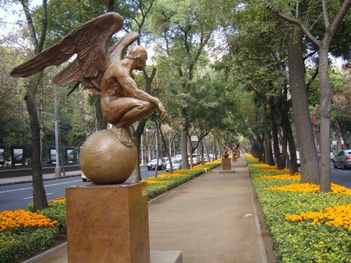 Expo en Reforma